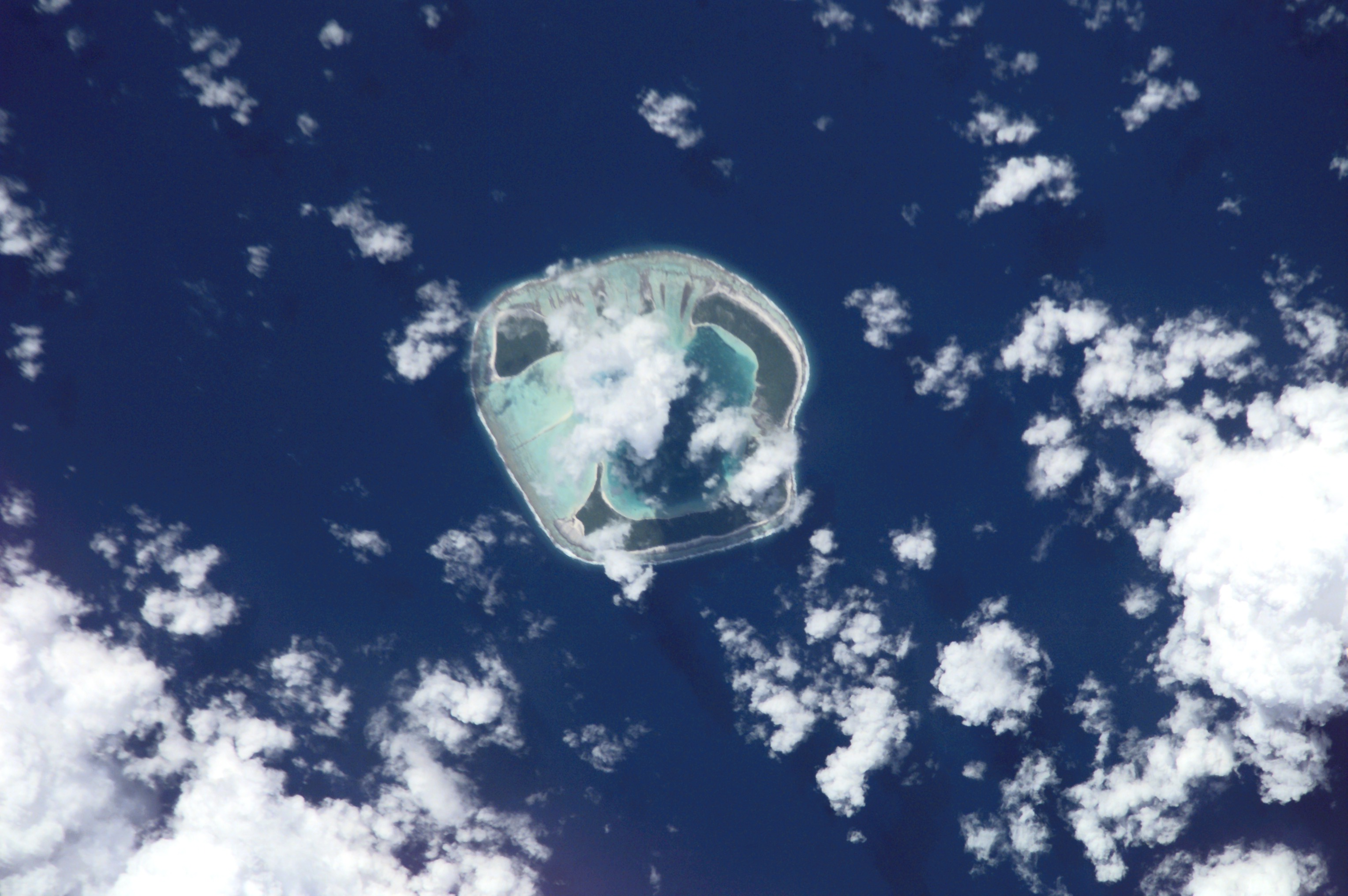 NASA astronaut image of Motu One Atoll (Society Islands, French Polynesia) in the Pacific Ocean